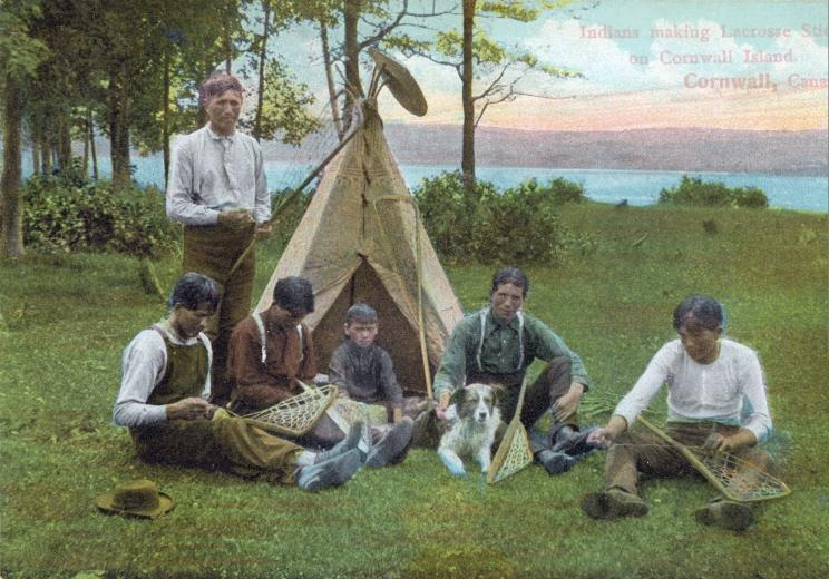 Print (photomechanical), Aboriginals making lacrosse sticks, Cornwall Island, ON, about 1910, Coloured ink on paper mounted on card - Photolithography - 8.8 x 12.9 cm